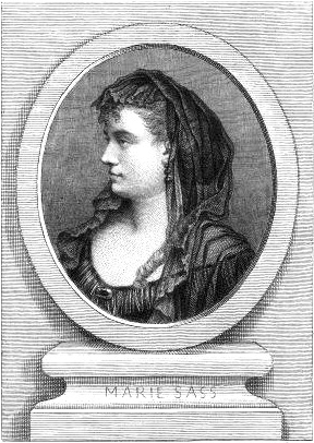 Marie Sass, French operatic soprano.